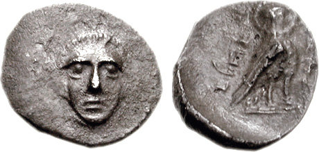 JUDAEA, Persian Period. Hezekiah. Circa 375-333 BCE. An example of the 'Hezekiah the governor' coin. The image of Hezekiah with the Persian title 'governor' or 'satrap'. The Hebrew inscription is YHZQKYH HPHH: “Yehezkiya the peha”